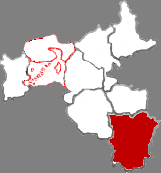 Location of Lingqiu county in Datong City, China